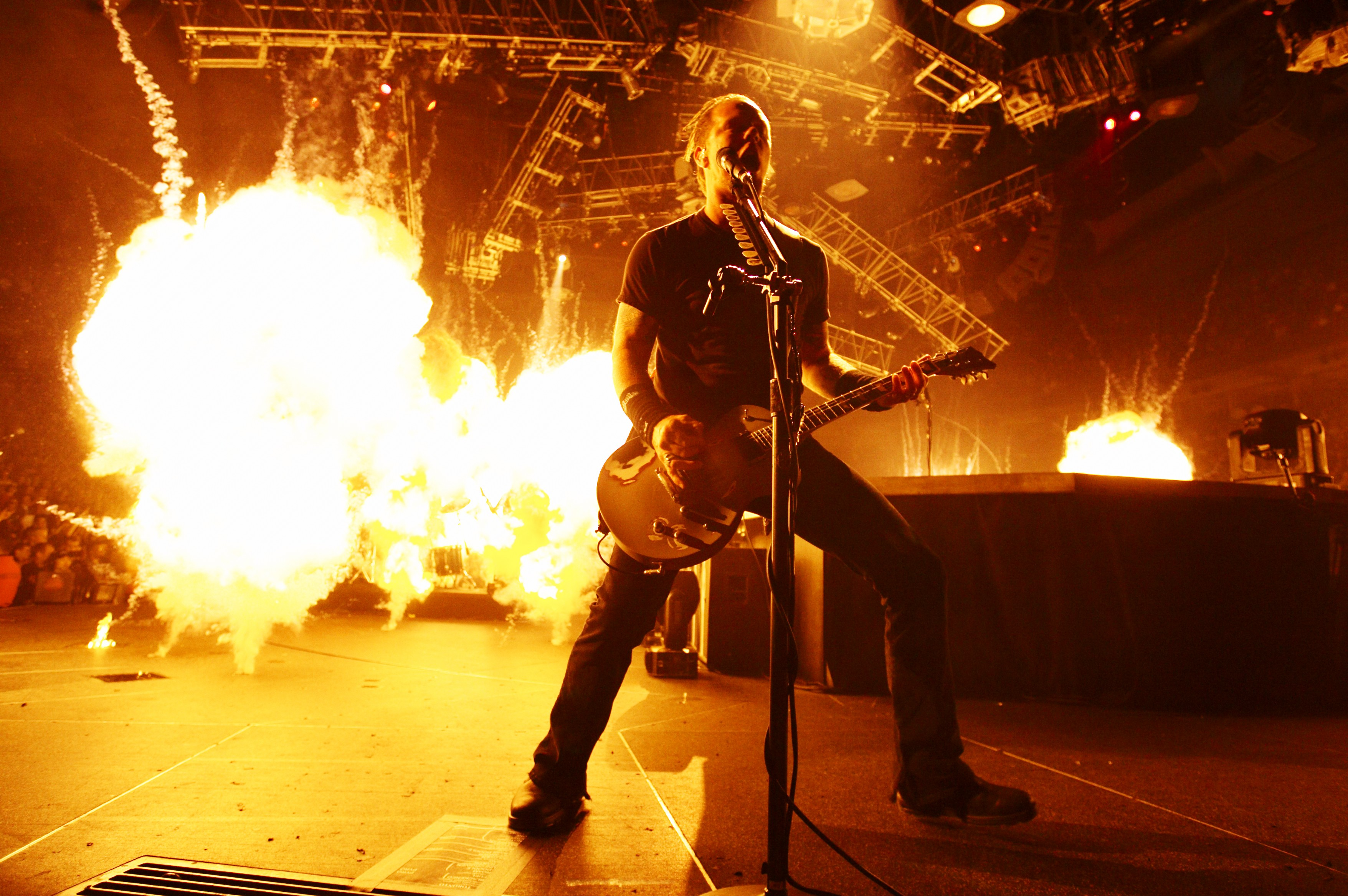 James Hetfield with Metallica in 2004. Concert in Corel Centre, Ottawa, Ontario, Canada. [1]